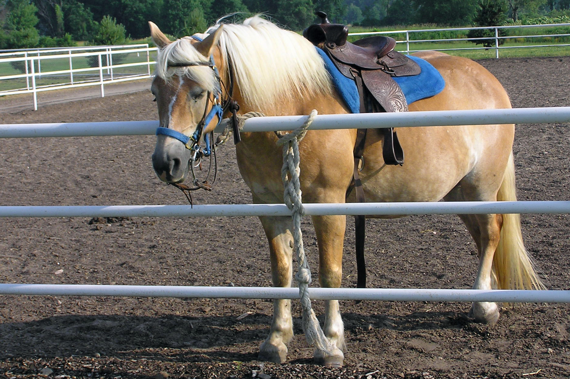 the other horses rested while they waited for the riding lesson -- this horse was actually asleep